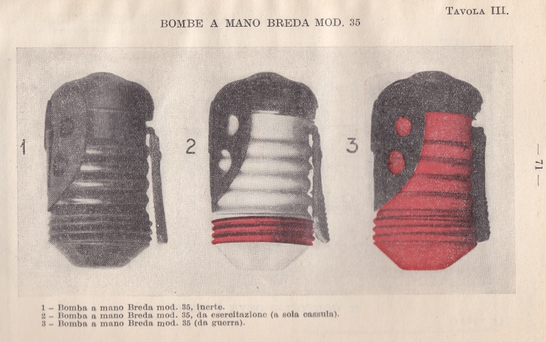 Sheet from italian royal army filed manual